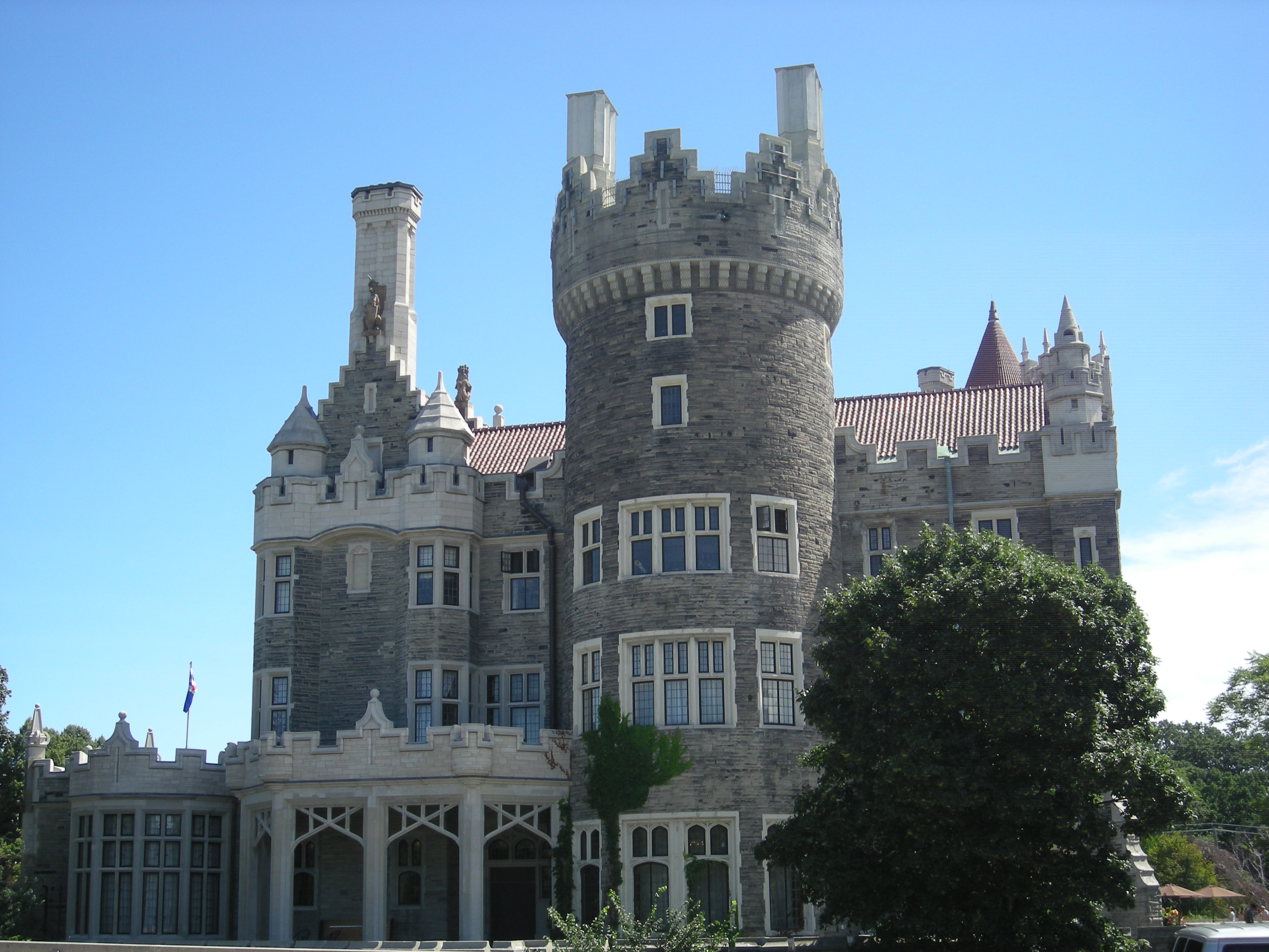 The exterior of Casa Loma at 1 Austin Terrace in Toronto, Ontario (Canada).